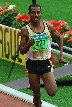 Kenenisa Bekele at Golden League 2006, Gaz de France, Paris Saint Denis